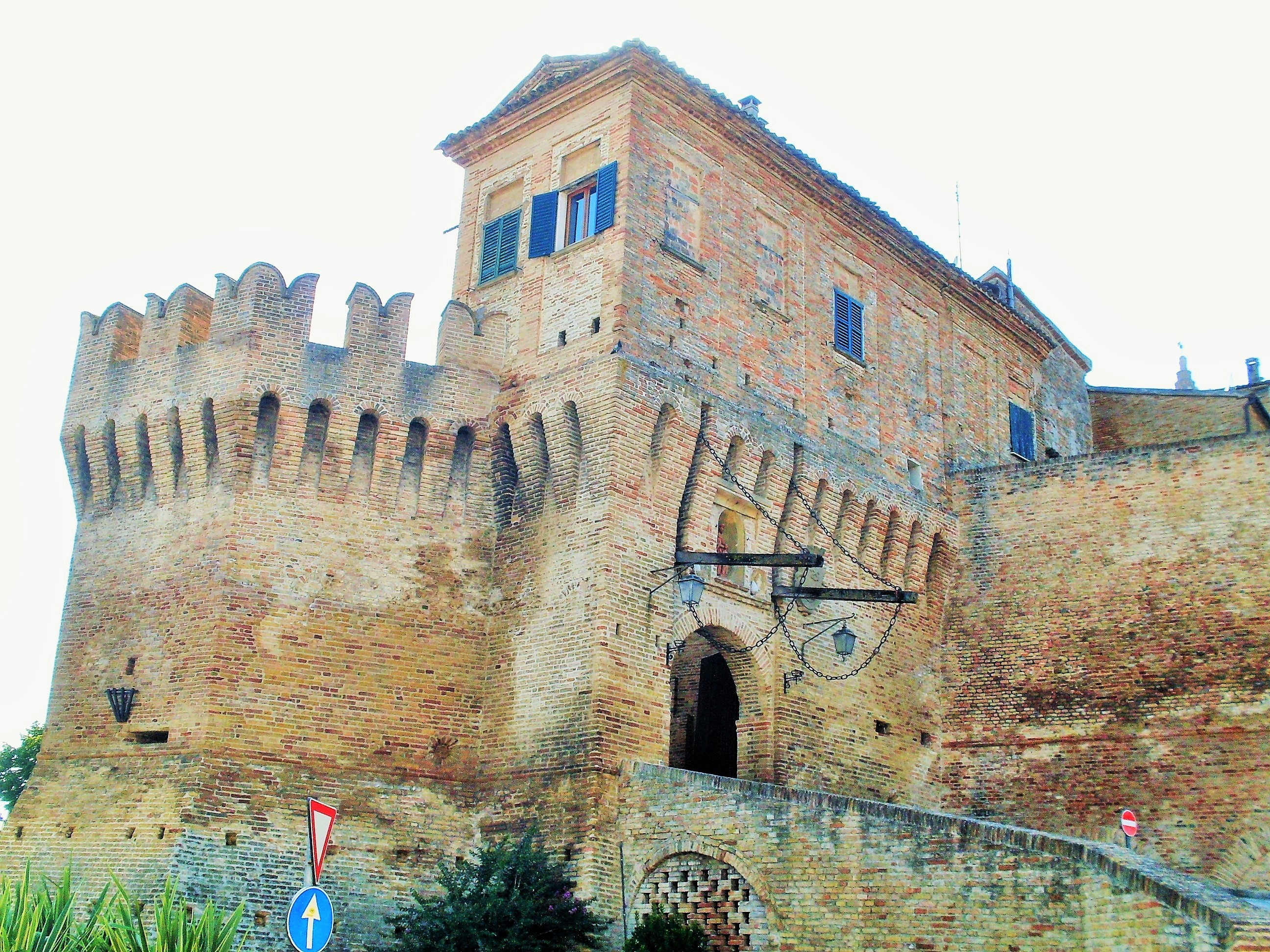 Porta di Sotto Corinaldo